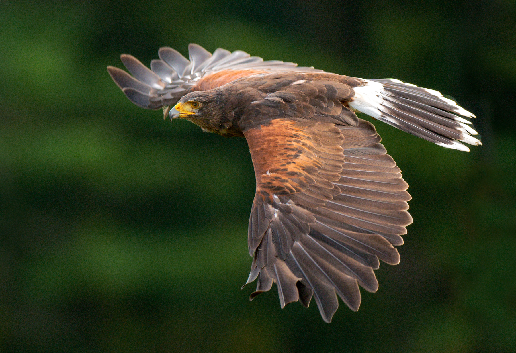 Harris's hawk in flight, Southern Ontario, Canada